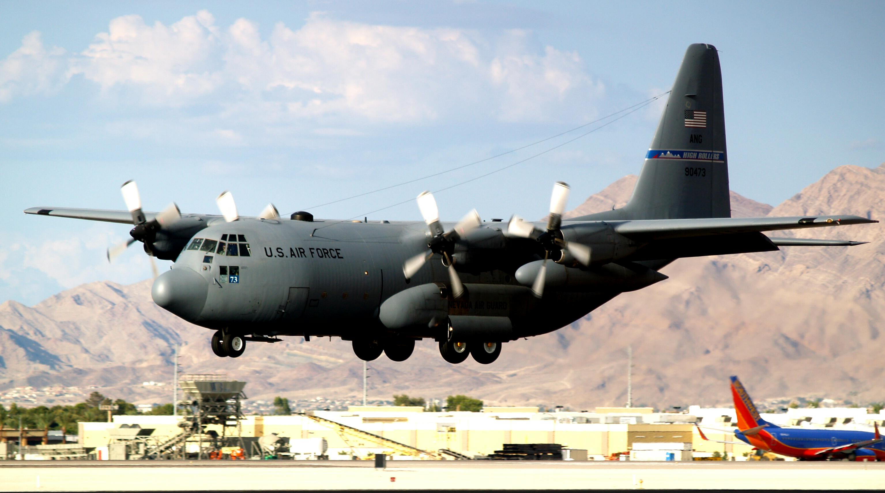 C-130 High Rollers Nevada National Guard 70473